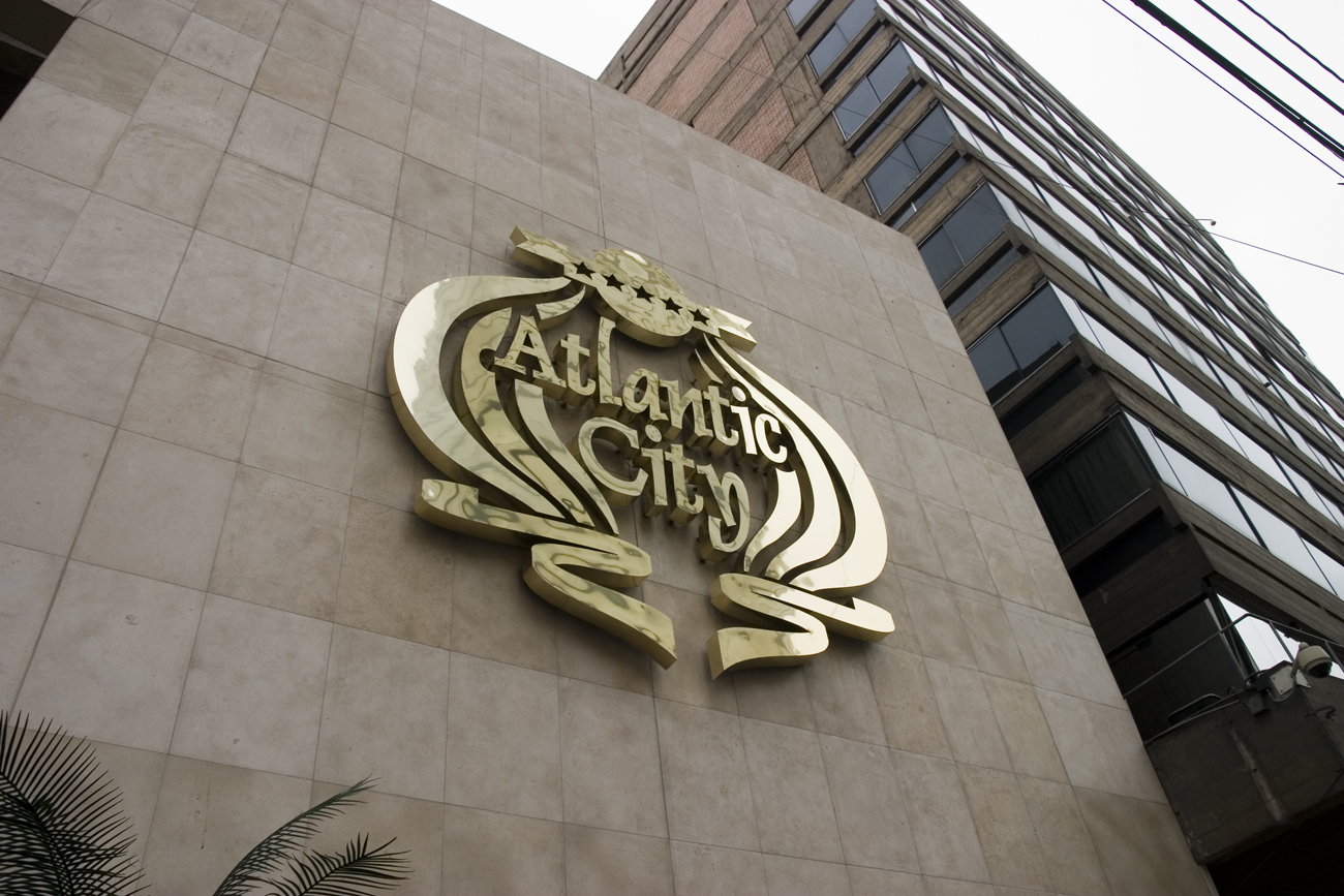 Exterior logo of Atlantic City casino in Lima, Peru.